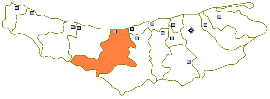 Author: Siamax Source: Mazandaran Plain Map Tag: Noor location in Mazandaran